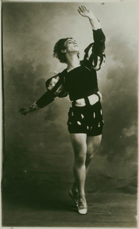 Mounted on board with Nijinsky, Vaslav, no. 2032. Posed on half-toe, left arm raised upward, right arm extended backward as Albrecht in Giselle.